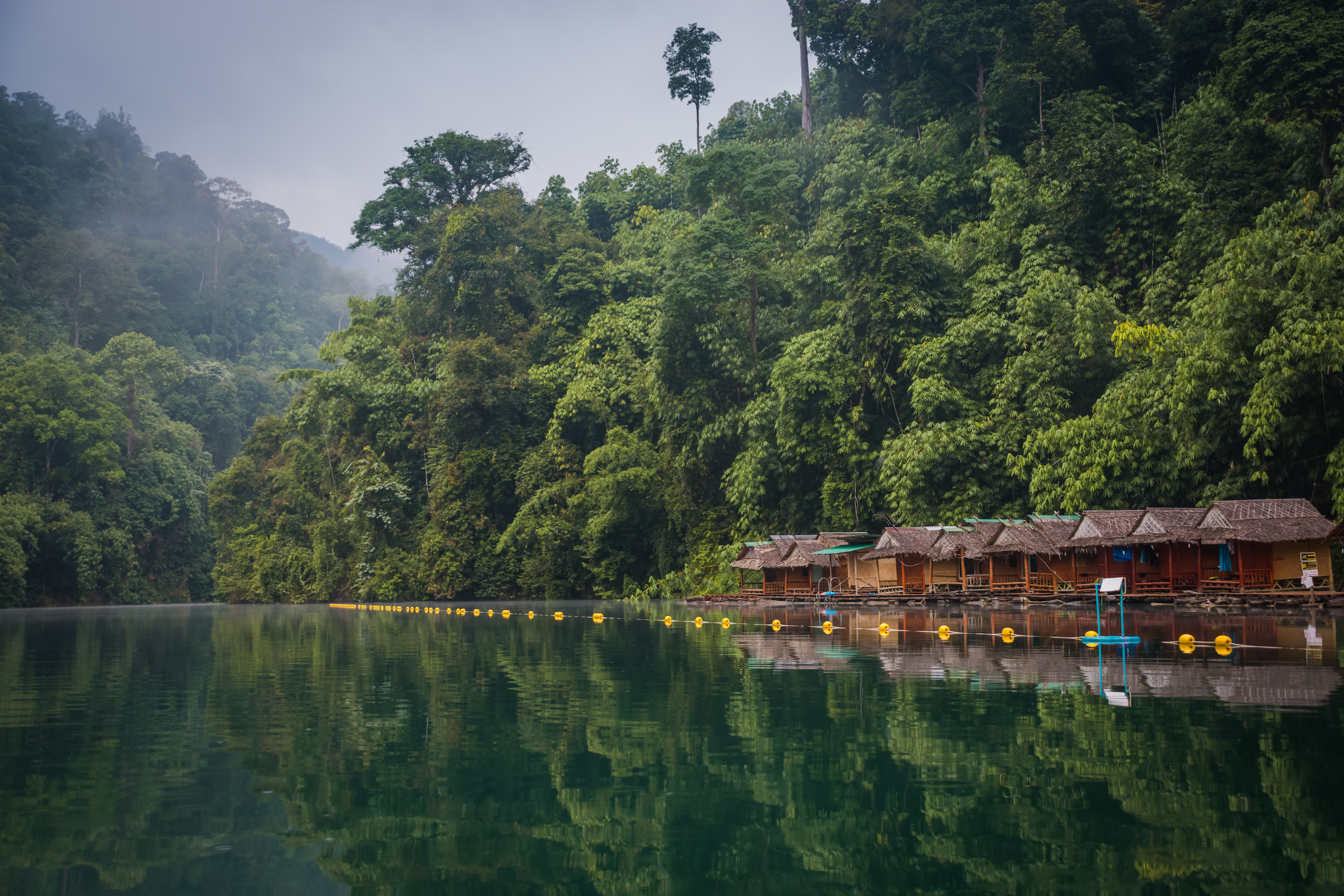 Khao Sok National Park, Khlong Sok, Thailand